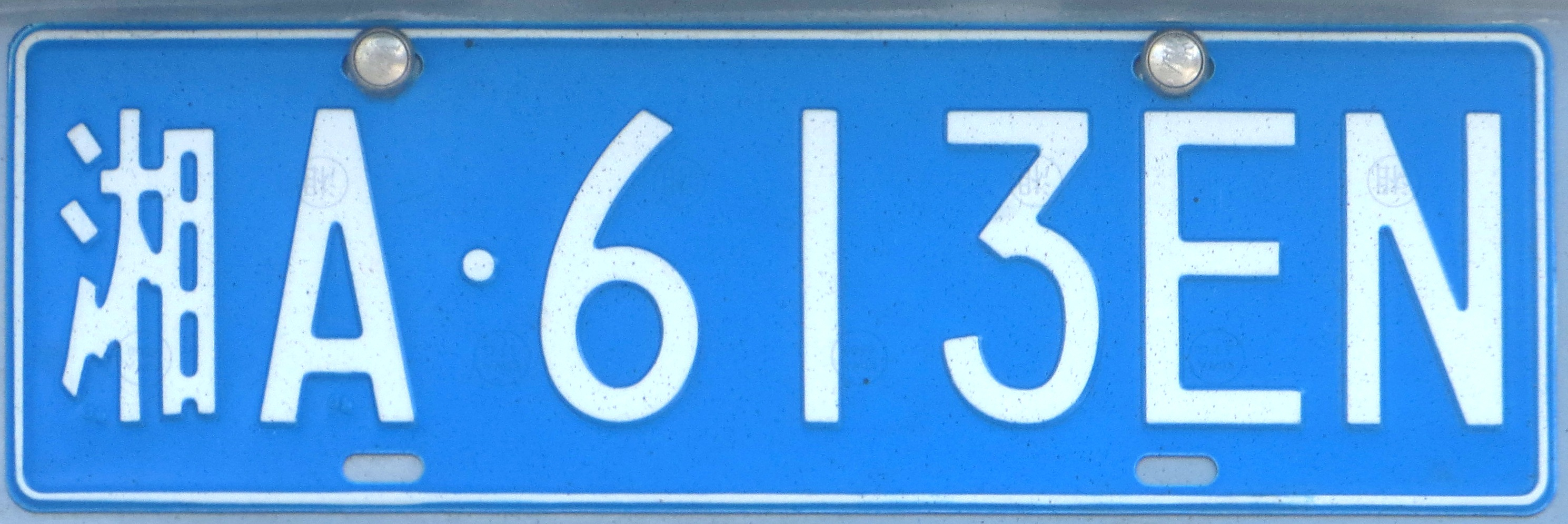 湘 license plate of Hunan, People's Republic of China